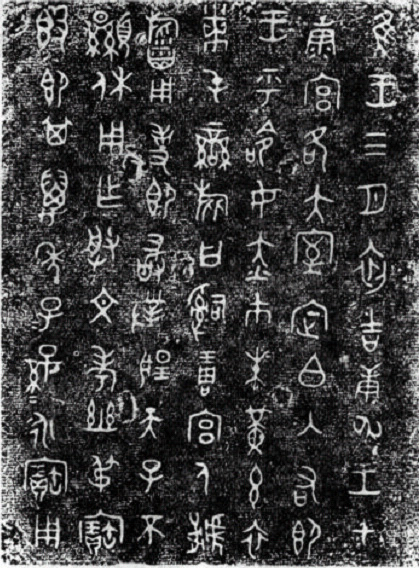 Rubbing of the Ji gui (c. 900 BC). Shaughnessy, Edward L. (1997) "Western Zhou bronze inscriptions" in Shaughnessy, Edward L. , ed. New Sources of Early Chinese History: An Introduction to the Reading of Inscriptions and Manuscripts, pp. 57–84 ISBN: 978-1-55729-058-8. pp. 71–73.